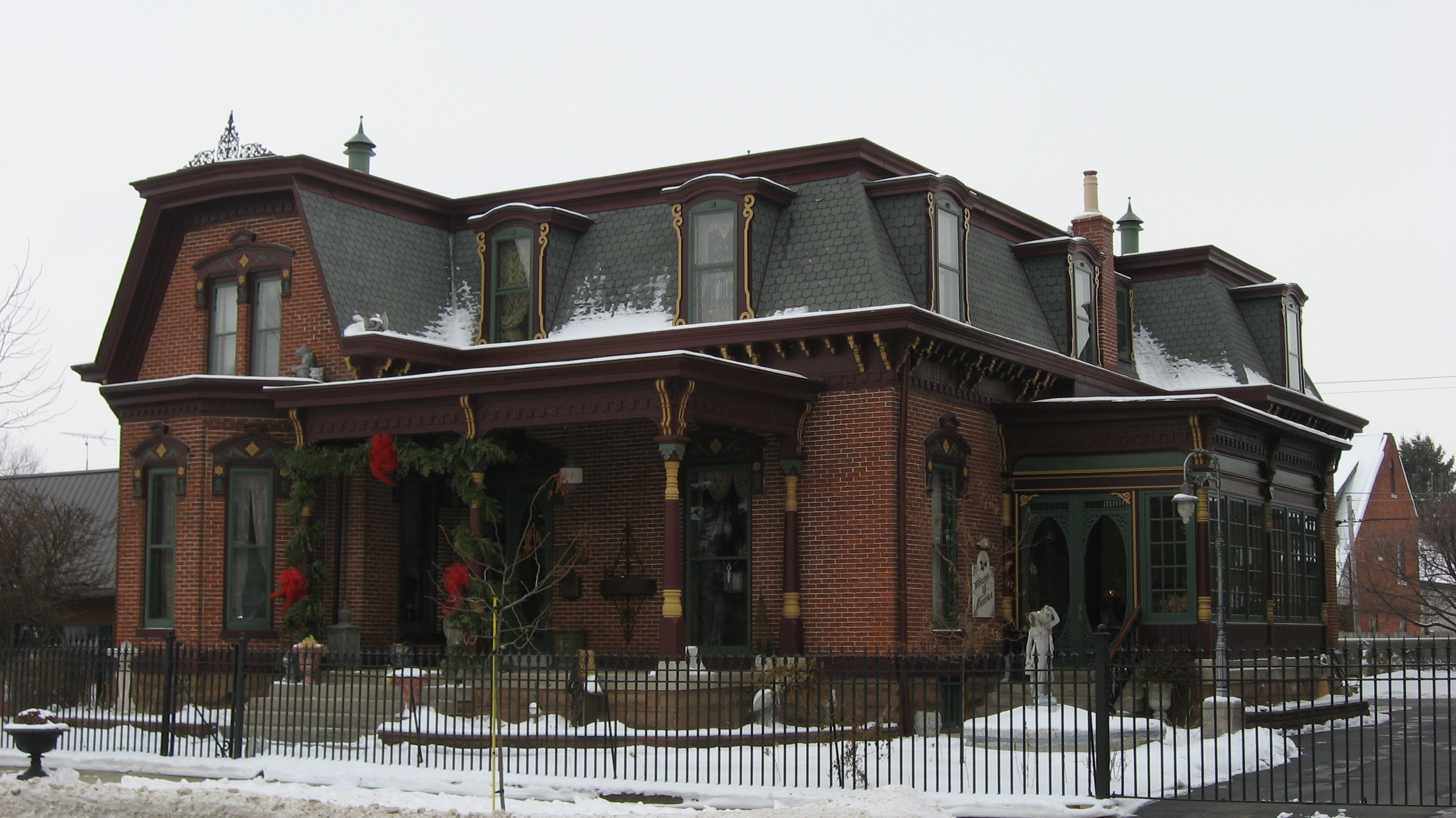 Front and southern side of the James Omar Cole House, located at 27 E. Third Street in Peru, Indiana, United States. Built in 1883, it is listed on the National Register of Historic Places.